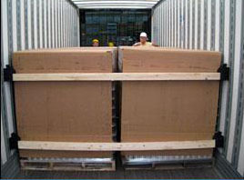 Super Wedge Installation of Logistick Product.